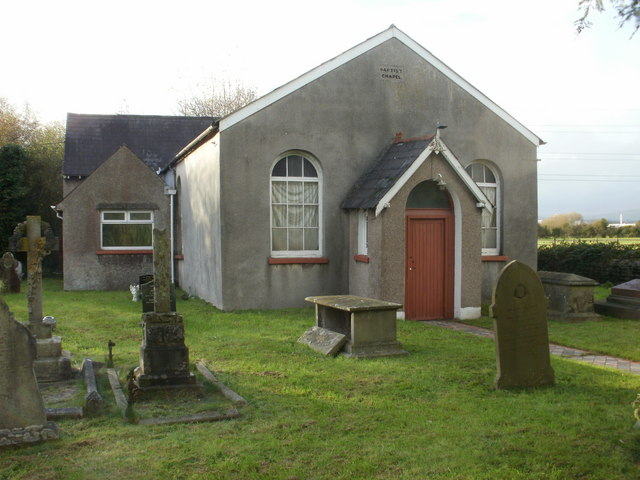 Former Nash Baptist Chapel, Pye Corner The chapel opened in 1820 with seating for 125. Its congregation included residents of what was then the hamlet of Liswerry, a mile or so distant (about 2 kilometres). Some of the congregation found it more convenient to attend Liswerry Baptist Church when it opened in 1889, the same year that Liswerry was incorporated into Newport under the provisions of the Newport (Mon.) Corporation Act, 1889. This began a decline in attendances at Nash Baptist Chapel, to only 5 members in 1988. The chapel closed soon afterwards. In 2006, a planning application was made to Newport City Council to convert the building into a dwelling house with vehicular access, but, externally at least, little has changed in the 3 years since this photo